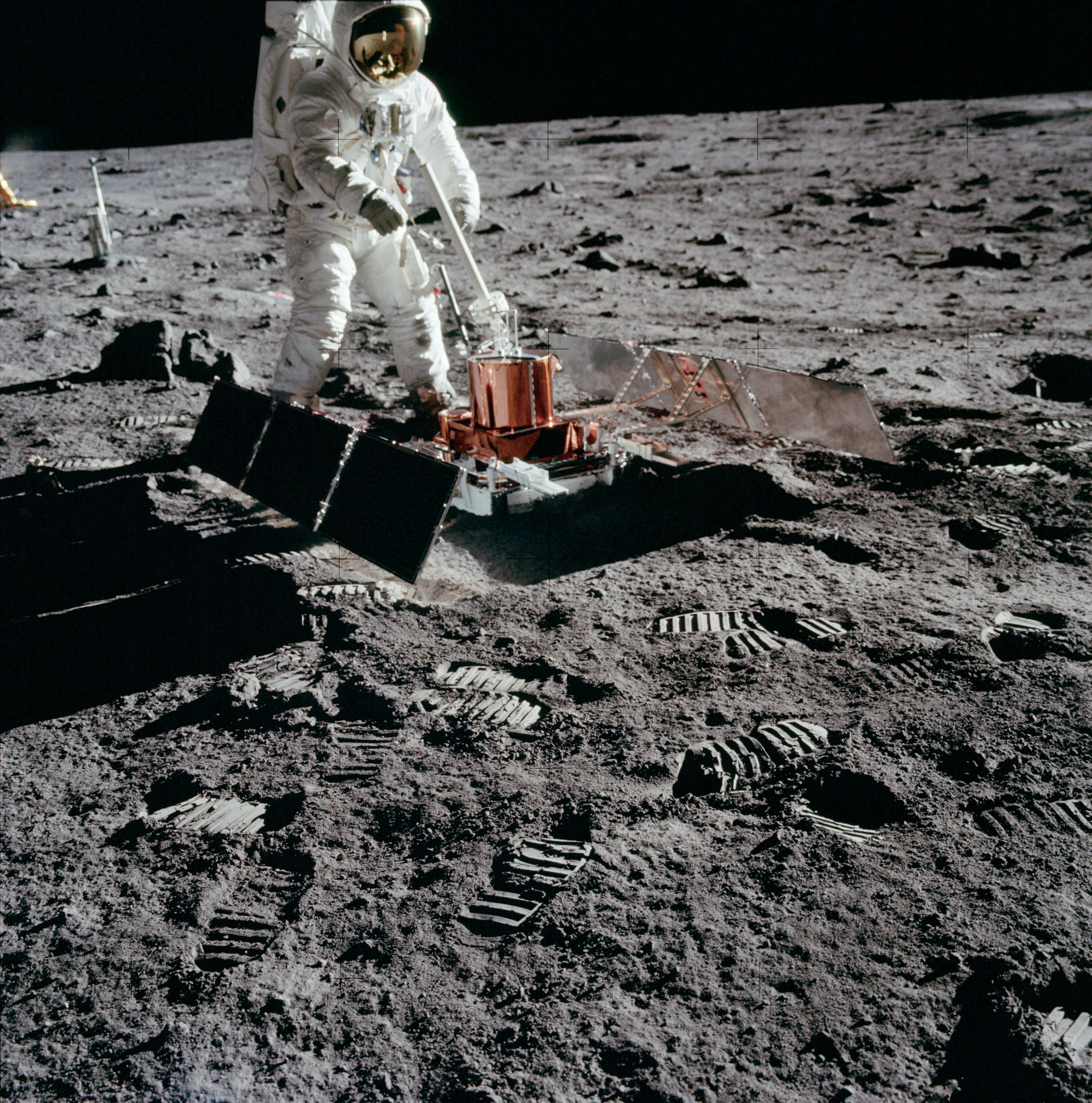 The Passive Seismic Experiment Package on the Moon. Buzz Aldrin is adjusting it.